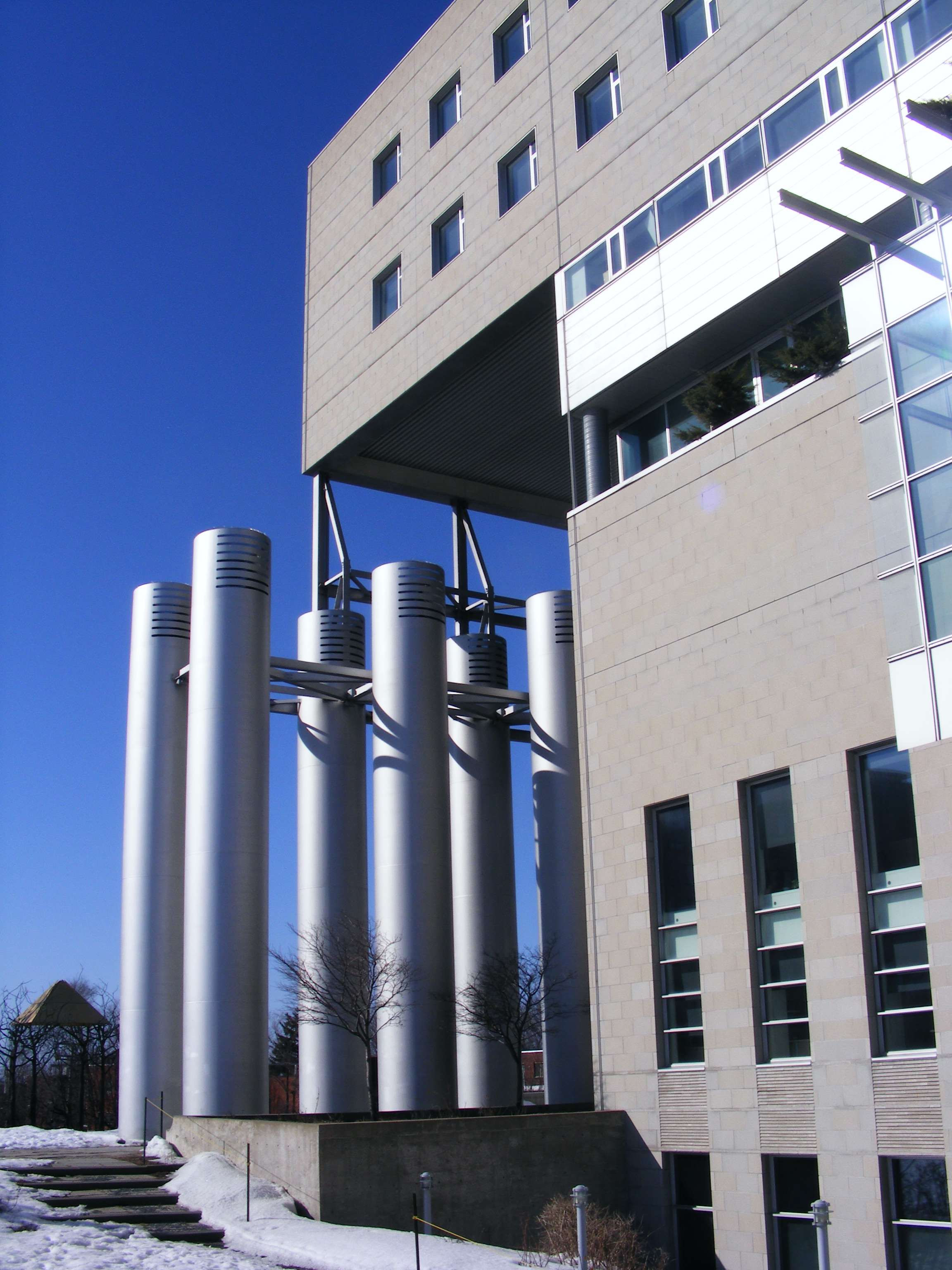 Side of CSC Campus of HEC Montreal